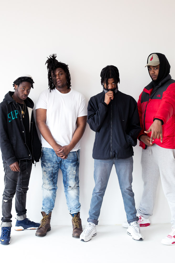 Divine Council rap collective.